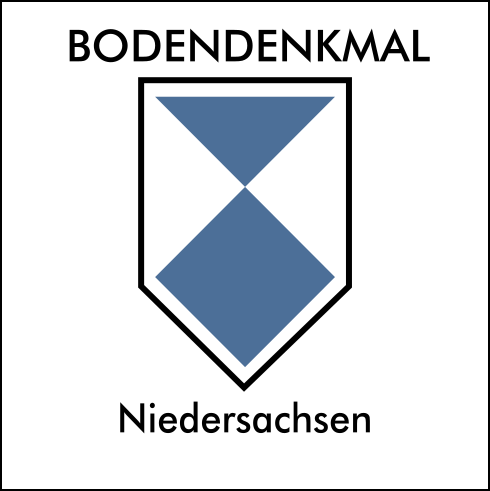 Heritage plate for ground monuments in Lower Saxony